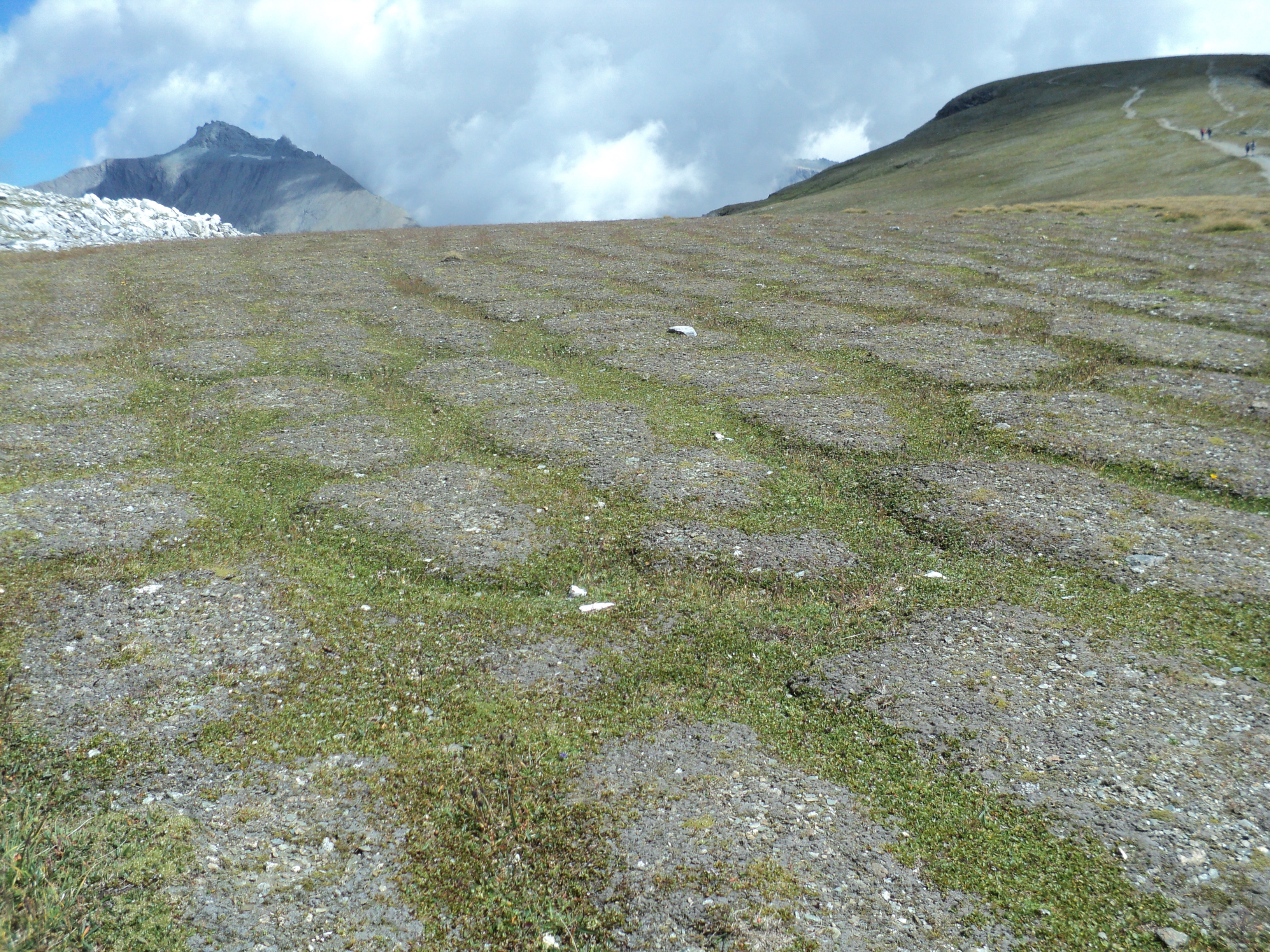 sorted stones indicate frost heaving in small amounts on Cassons above Flims - to be found on alpine nature trail also accessible for beginners regarding alpine hiking.